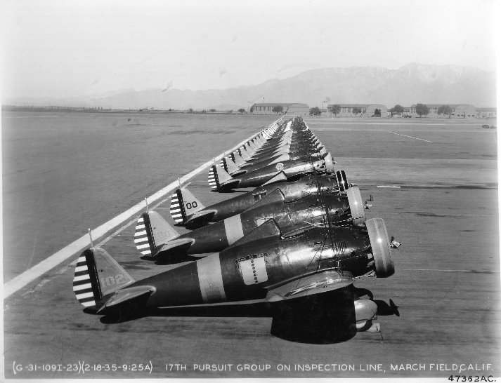 Aircraft of the 17th Pursuit Group on the flightline, March Field, California